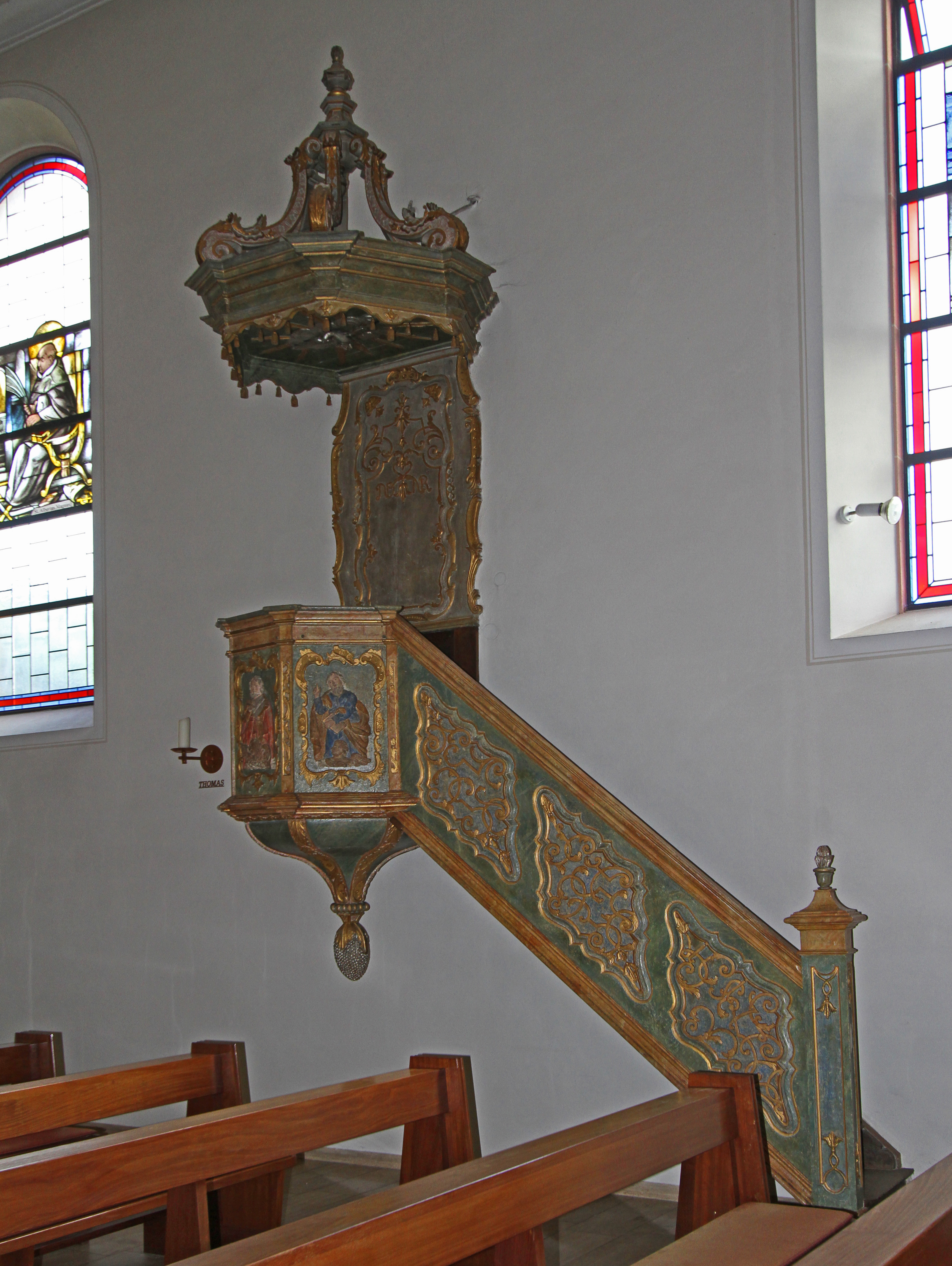 Church of Saint Stephen in Trulben, interior decoration.